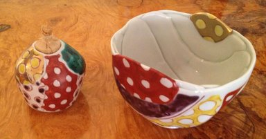 Matsuda Yuriko (Japanese, born 1943). Tea Caddy and Tea Bowl. Overglaze enamel and gold on porcelain; straw , 3 15/16 x 2 3/4 in. (10 x 7 cm). Brooklyn Museum, Gift of Shelly and Lester Richter.